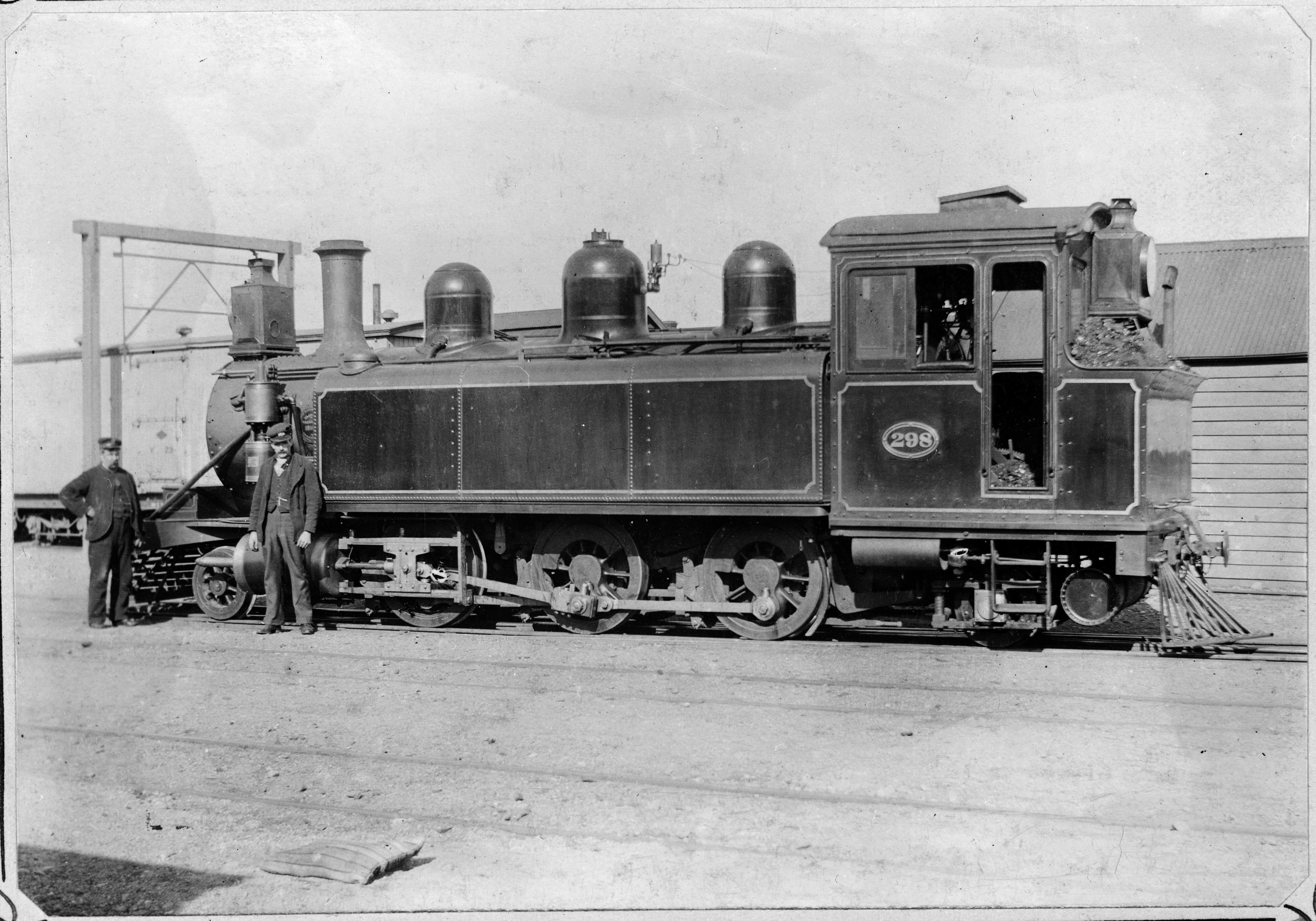 Baldwin locomotive "Wb" class 298 (2-6-2T type), went into service April 1899 and written off in September 1955. Photographed by Albert Percy Godber. For further information see "Register of New Zealand Railways steam locomotives, 1863-1971" by W G Lloyd. This image is a film negative taken from the page in Godber Album Vol 108, p 57 (PA1-q-101), which shows the decorative border and part of the inscription in Godber's album.